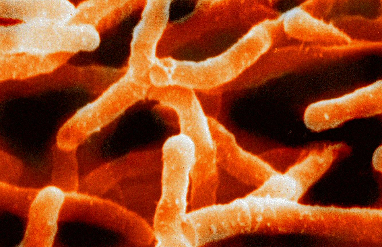 Scanning electron micrograph of Actinomyces israelii (false colour)